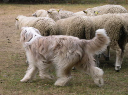 Foxy (Boomtown Dalwhinnie) Foxy (Boomtown Dalwhinnie)